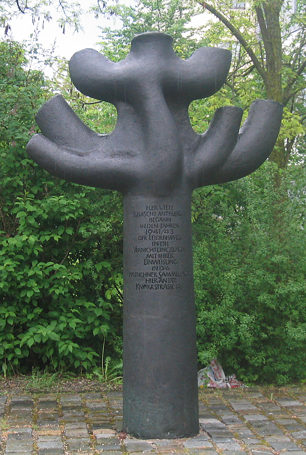 Monument for a former outpost of the concentration camp dachau in Munich.